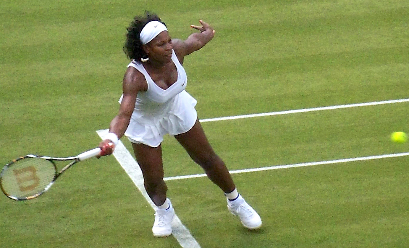 Serena stretches for a ball in her first round match against Kaia Kanepi of Estonia at Wimbledon 2008